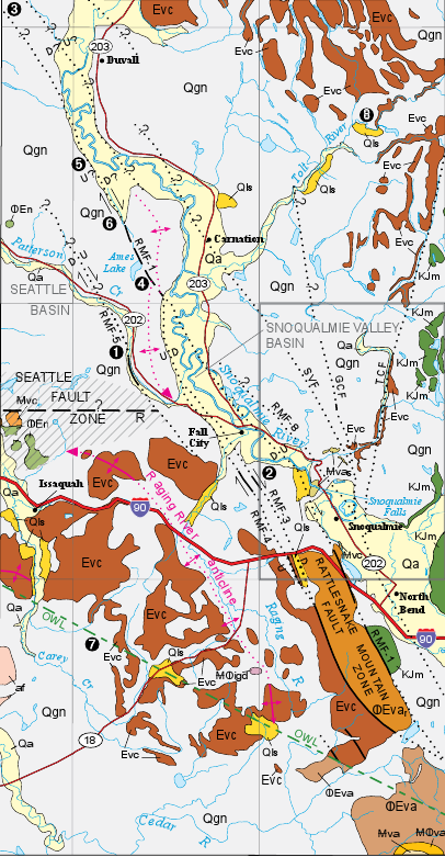 Simplified geologic map of the Snoqualmie Valley (WA, east of Seattle) from North Bend to Duvall showing various strands of the Rattlesnake Mountain Fault (RMF), and the Snoqualmie Valley (SVF), Griffin Creek (GCF), and Tokul Creek (TCF) faults. Southeastern limit of Southern Whidbey Island Fault at Duvall (3), other faults south of I-90 not shown. Figure 1 from Dragovich, et al. "Geologic Map of the Snoqualmie 7.5-Minute Quadrangle, King County, Washington", Washington DGER Geologic Map GM-75, 2009